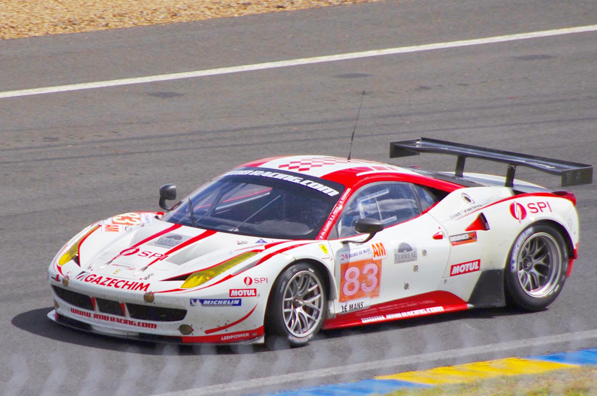 JMB Racing's Ferrari 458 Italia Driven by Alain Ferte, Philippe Illiano and Manuel Rodrigues Le Mans 24 Hours, 2012